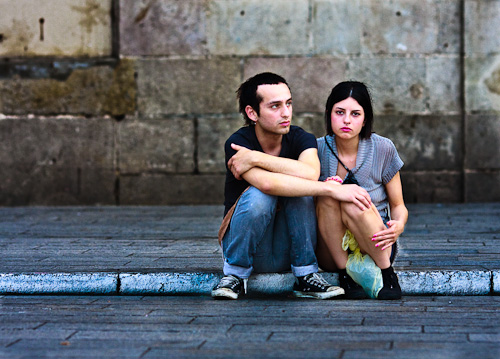 A couple sitting on a pavement, looking unhappy.